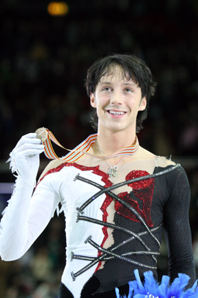 Johnny Weir during the men's medals ceremony at the 2008 World Championships